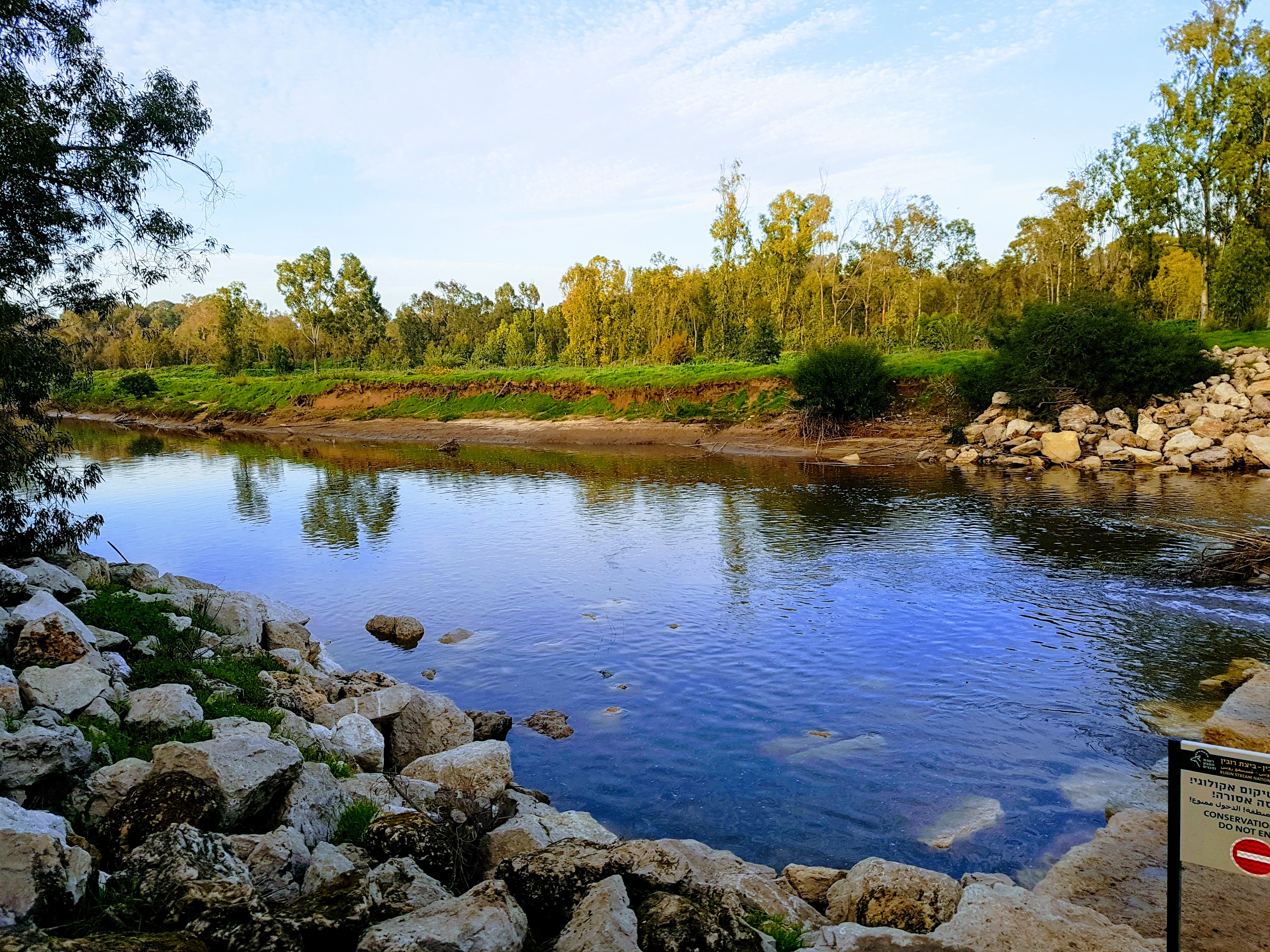 Nahal Sorek